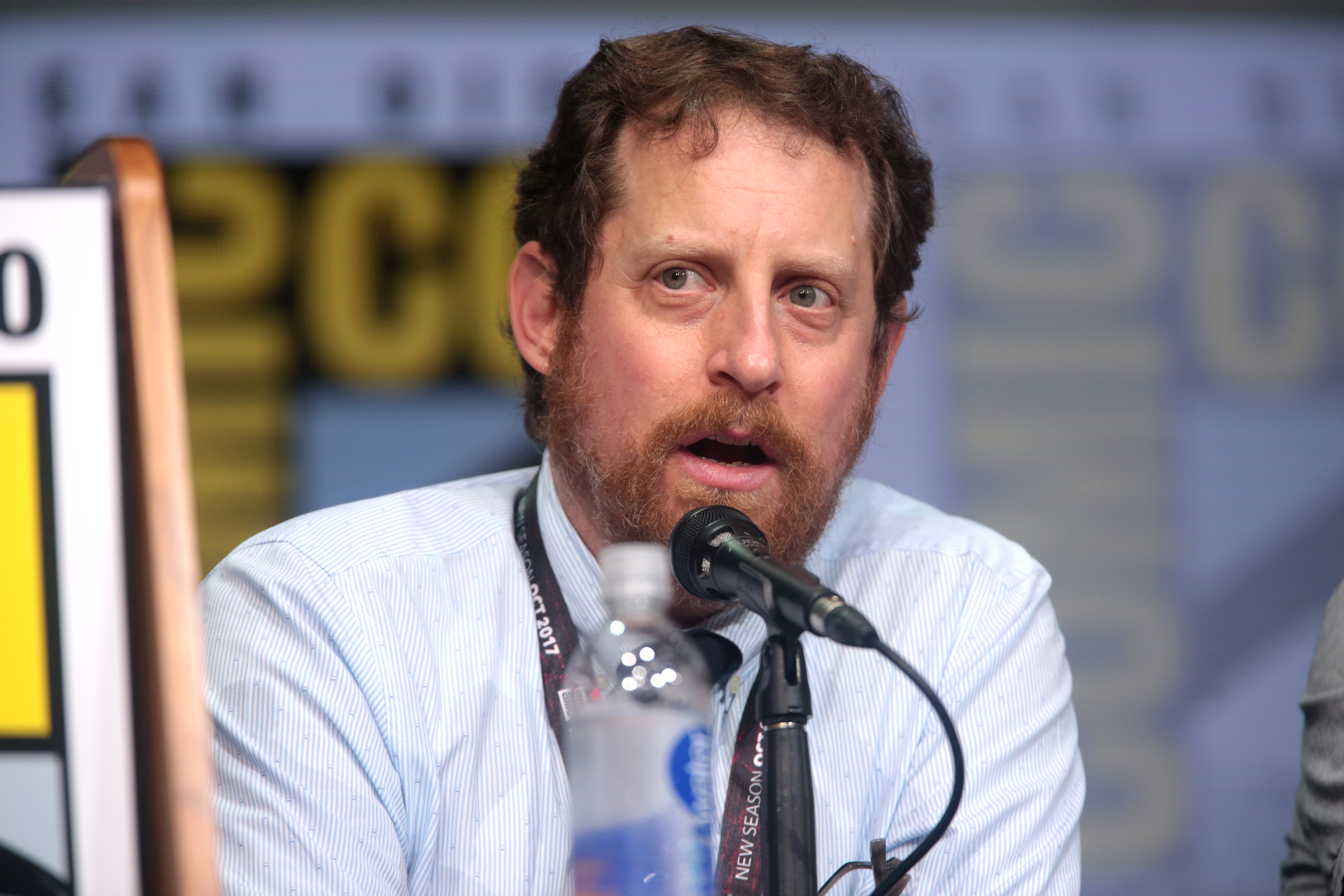 Scott M. Gimple speaking at the 2017 San Diego Comic Con International, for "The Walking Dead", at the San Diego Convention Center in San Diego, California.